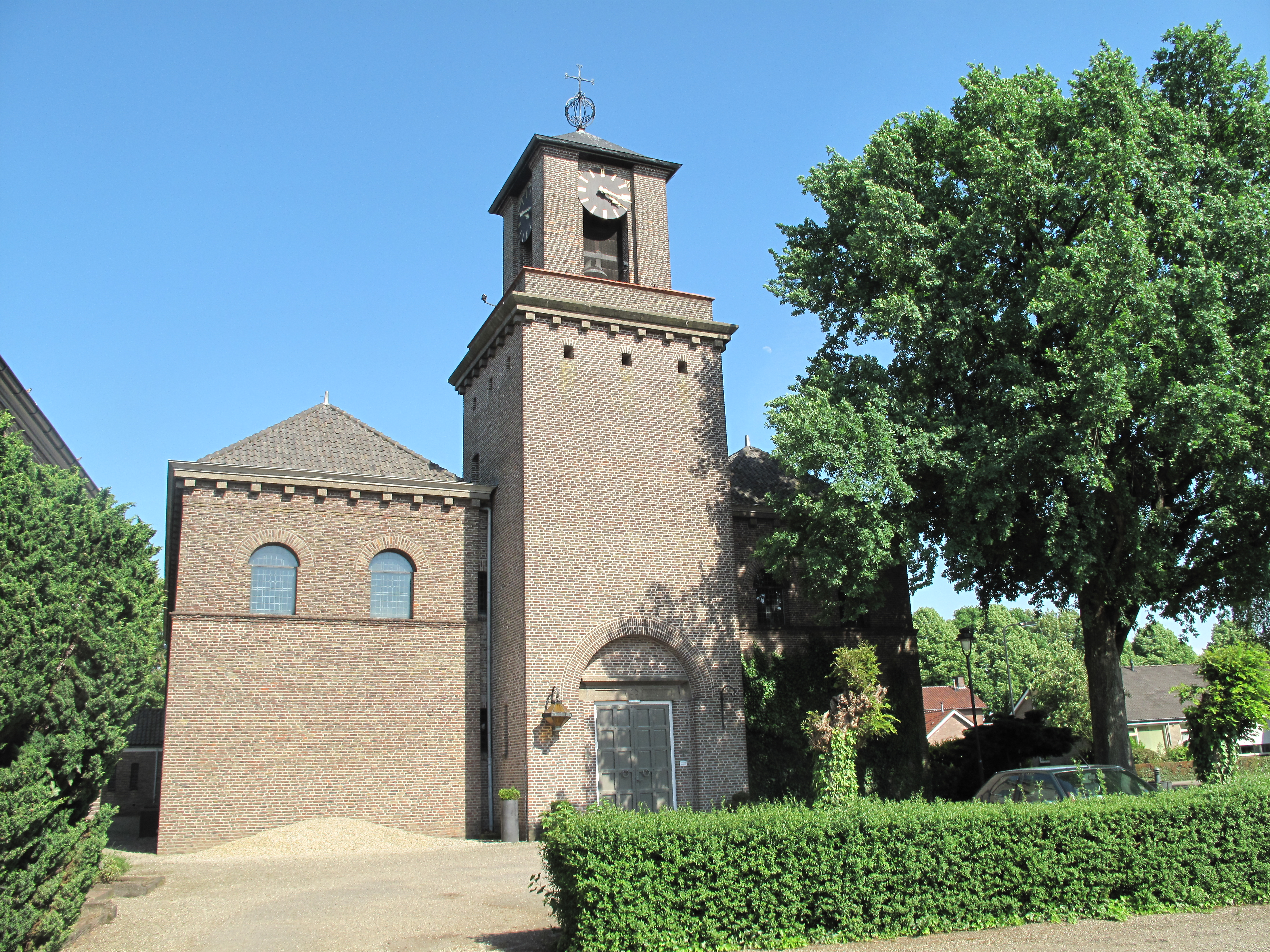 Angeren, chapel: Mariakapel